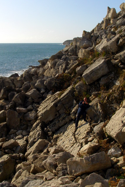 Southwell Landslip Huge blocks of stone look as if they are literally slipping into the sea (which they are, albeit very slowly) here at the Southwell Landslip. The figure in the foreground gives a sense of scale to the scene. Probably an area to be wary of falling rocks, and not a good place to be in bad conditions.